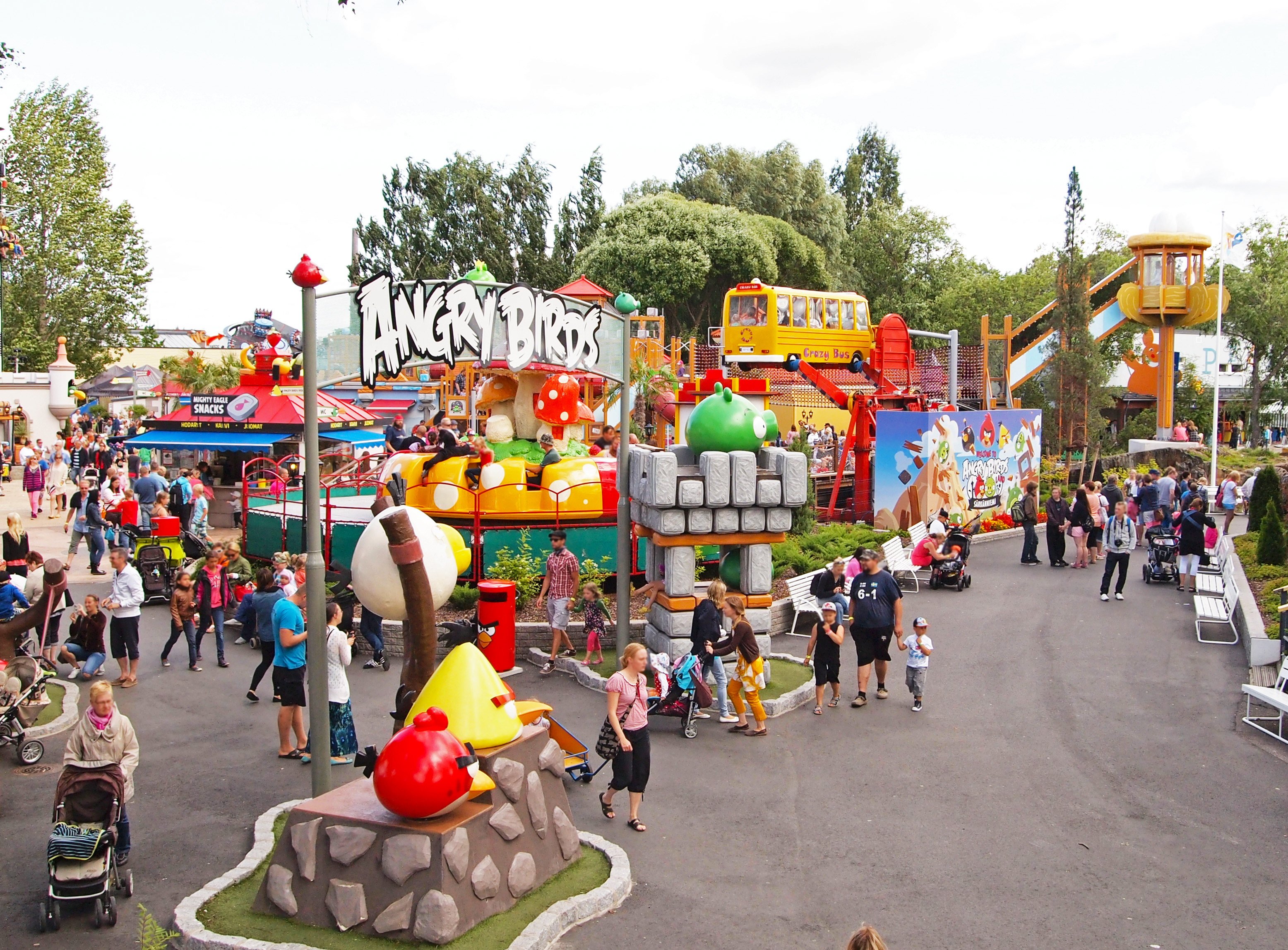 Entry to Angry Birds Land in Särkänniemi amusement park, Tampere. This photograph was taken with a Olympus E-PL1.